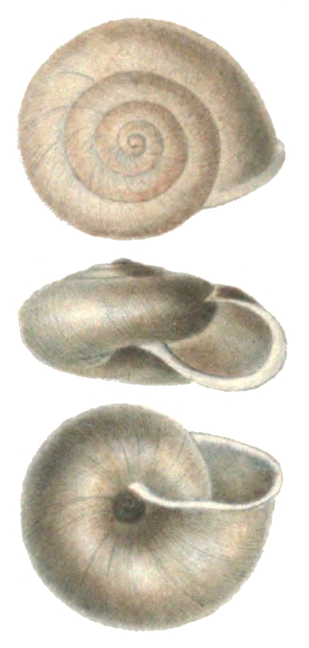 Drawing of the shells of Norelona pyrenaica.